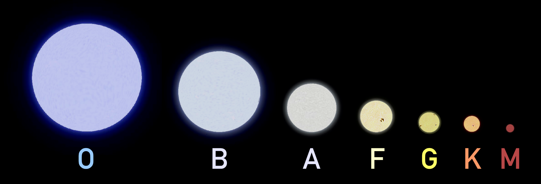 Main sequence stars in scale.